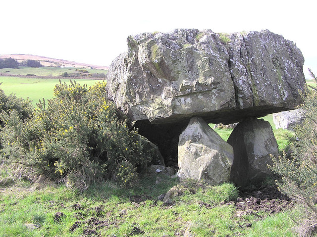 Chambered Grave, Loughmacrory. This is a close-up of the historic monument near the village